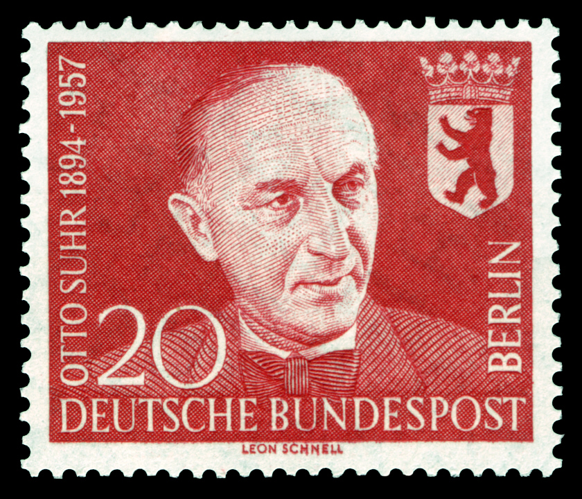 For the 1st day of death of Otto Suhr (1894–1957) primary major of Berlin)